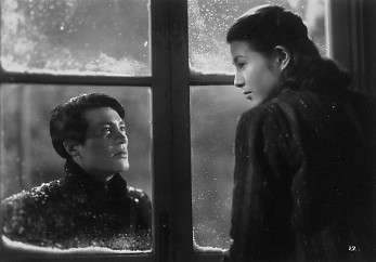 Yoshiko Kuga and Eiji Okada in Mata au hi made (Until We Meet Again) (1950)